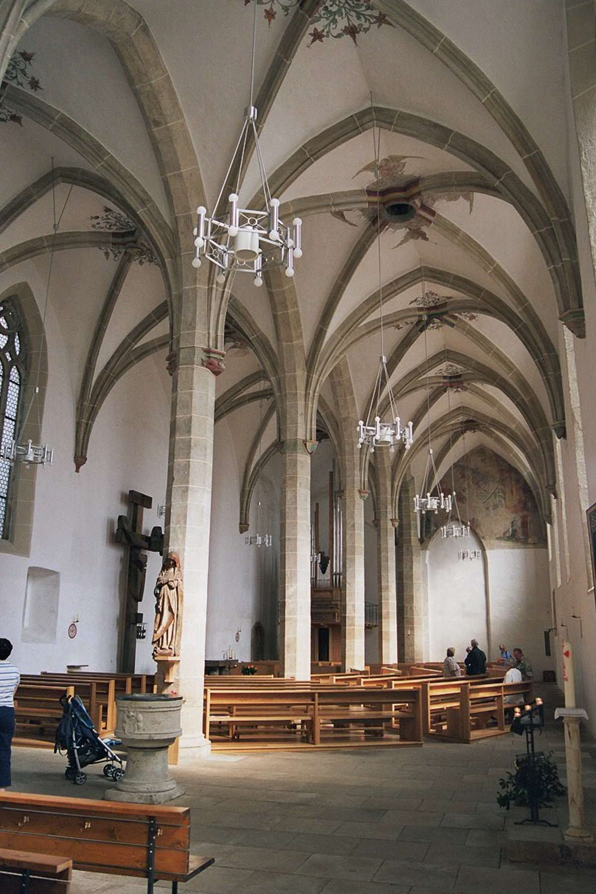 Pirna: Inside the minster "St. Heinrich".